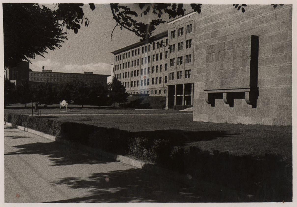 Ankara Üniversitesi Dil ve Tarih-Coğrafya Fakültesi’nin binası 1937’de Bruno Taut tarafından tasarlandı. Aynı dönemde Ankara İmar Planı’nı hazırlamakta olan Hermann Jansen projeye karşı çıktı, ancak İmar İdare Heyeti itirazları yerinde bulmadı ve proje uygulandı. Ana caddeye paralel dikdörtgen prizmatik kütlesi ile bunun iki ucuna eklenmiş küçük bloklardan meydana gelen yapının ön cephesinde taş ve tuğla birlikte kullanıldı; yan ve arka cepheler sıvayla kaplandı. Erken Cumhuriyet dönemi anıtsal mimarlığına uygun olarak modern-klasisist tarzda olan yapının ön cephe alınlığındaki Atatürk Maskı, heykeltıraş Joseph Throak’ın çalışmasıdır. Fakülte bahçesinde yer alan Mimar Sinan Anıtı ise, Hüseyin Anka Özkan tarafından yapılmıştır. SALT Araştırma, Ali Saim Ülgen Arşivi